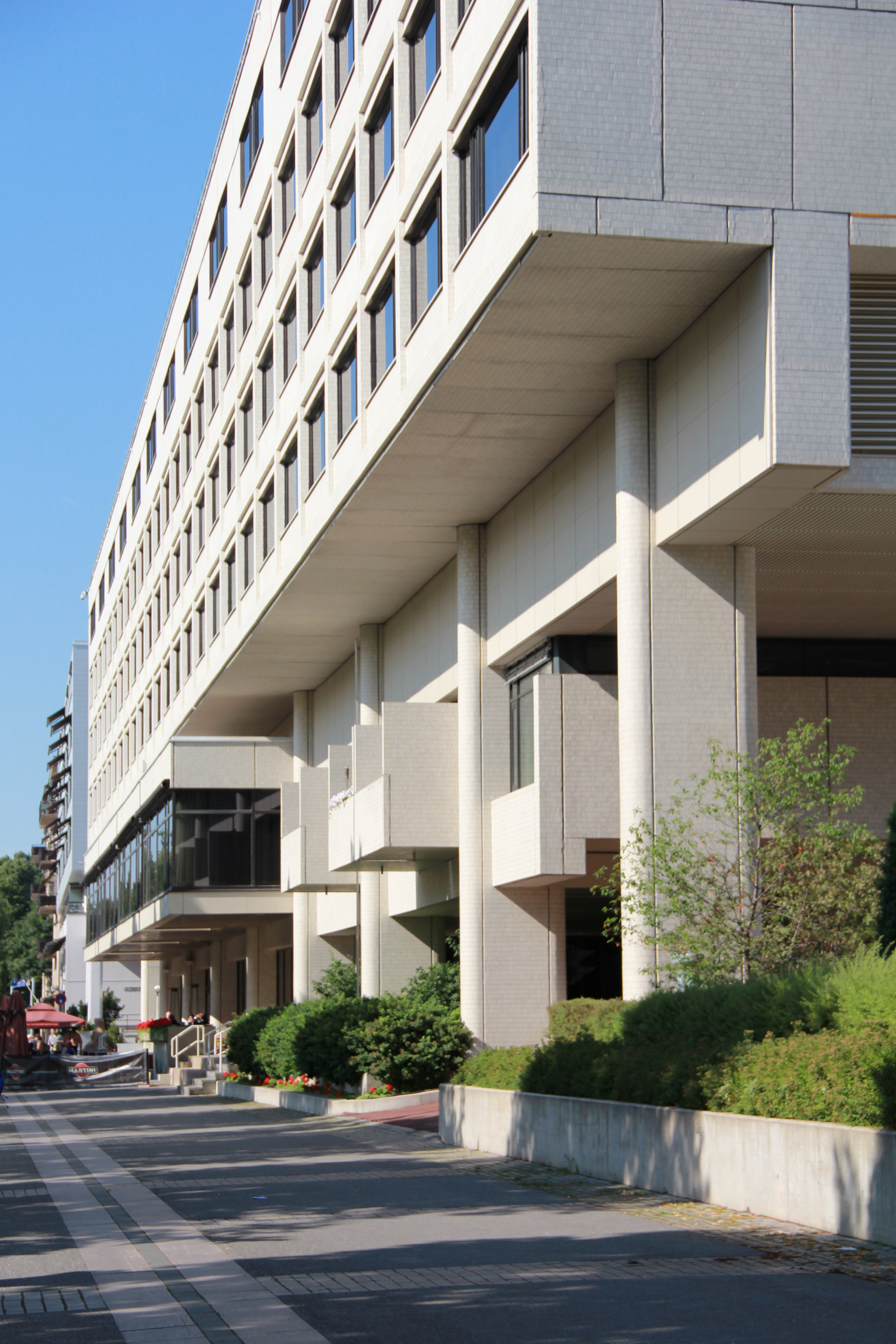 Hotel Radisson Blu Marina Palace in Turku, Finland. Northeast facade and (the longer) facade towards Aura River.